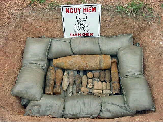 Unexploded ordnance